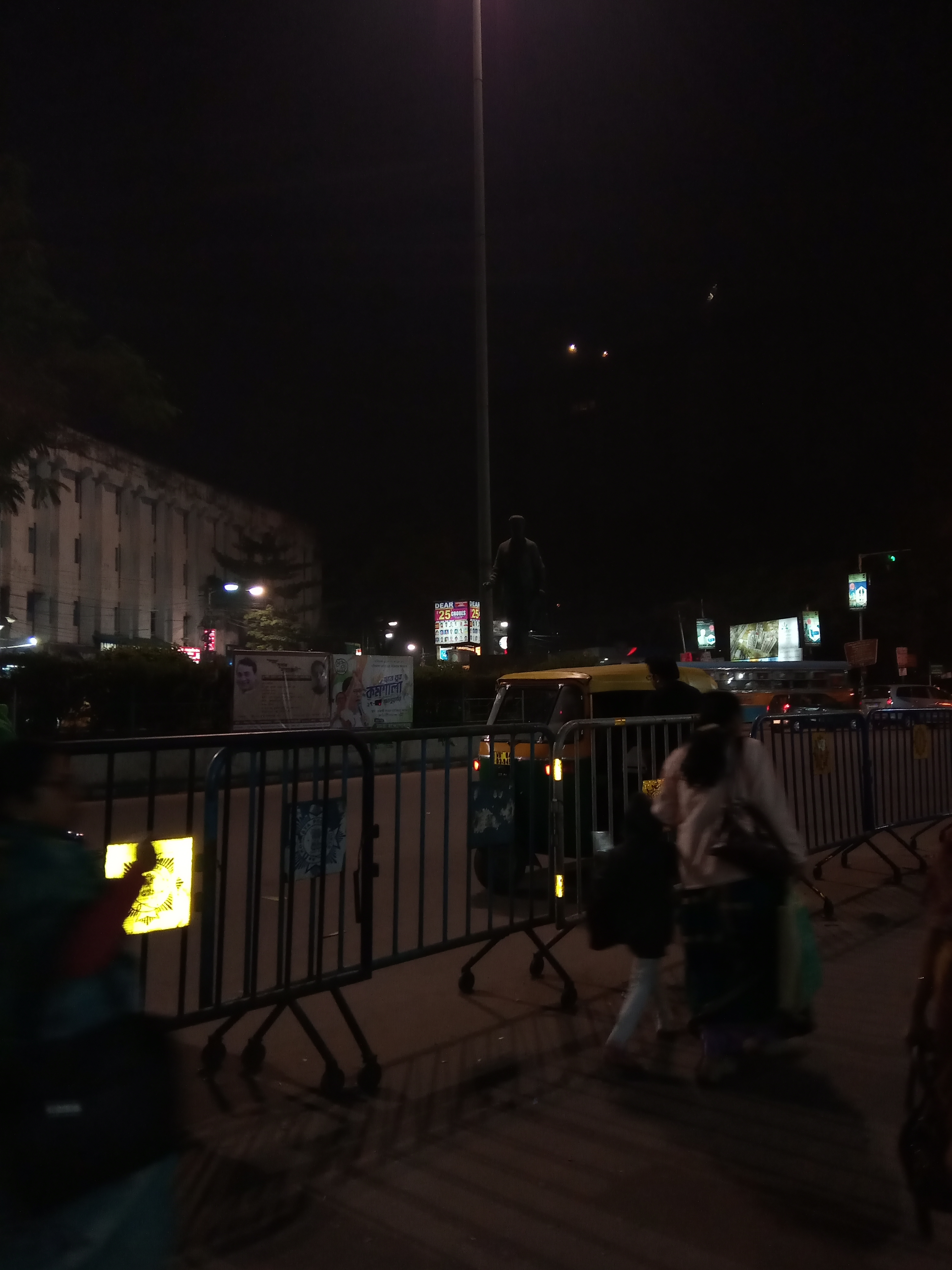 This is the night view of the statue of Uttam Kumar, a legendary actor of Tollywood, at Tollygunge, Kolkata, India.